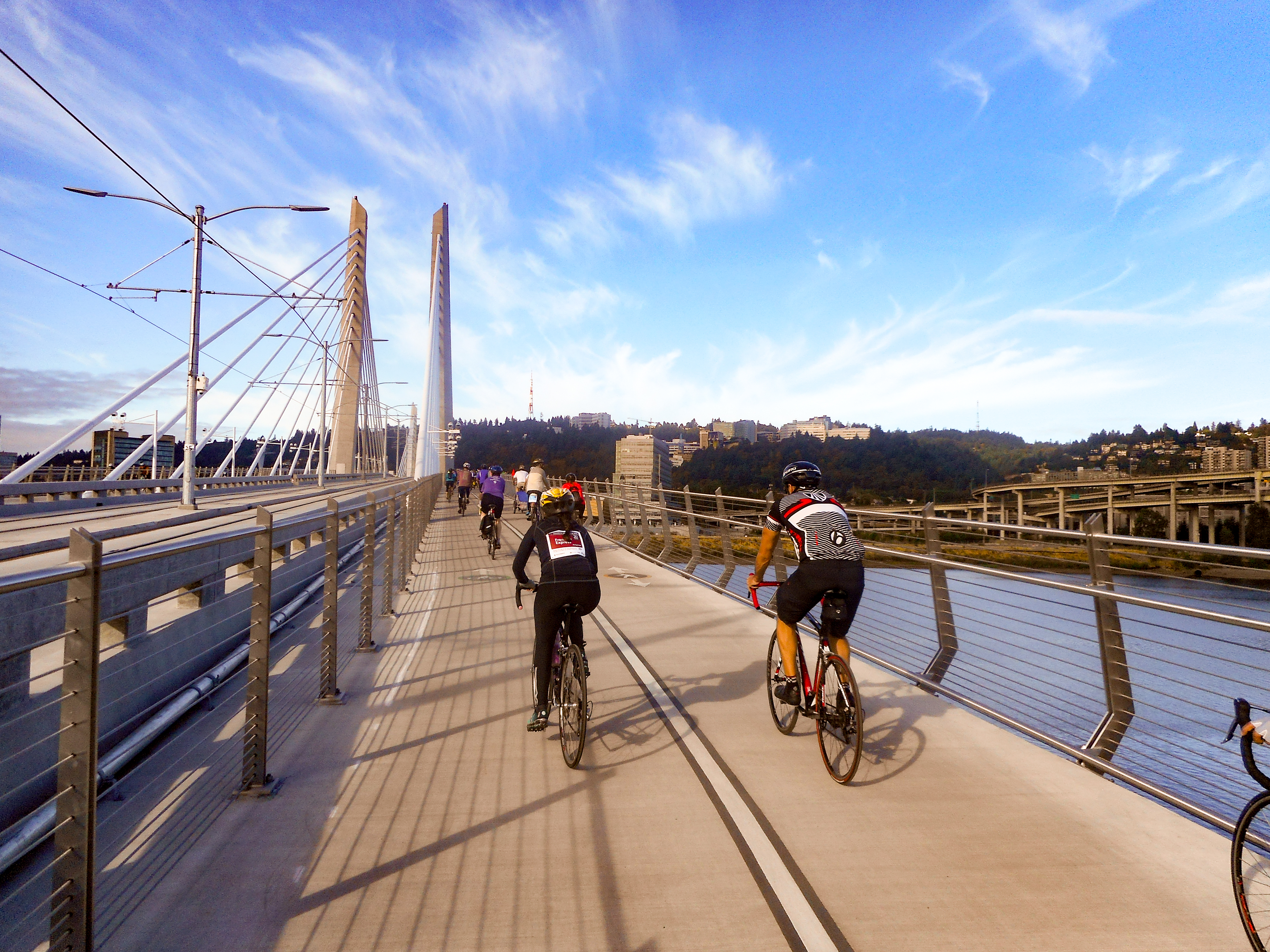 Bicyclists using the Tilikum Bridge, Providence Bridge Pedal, 2015-08-09.